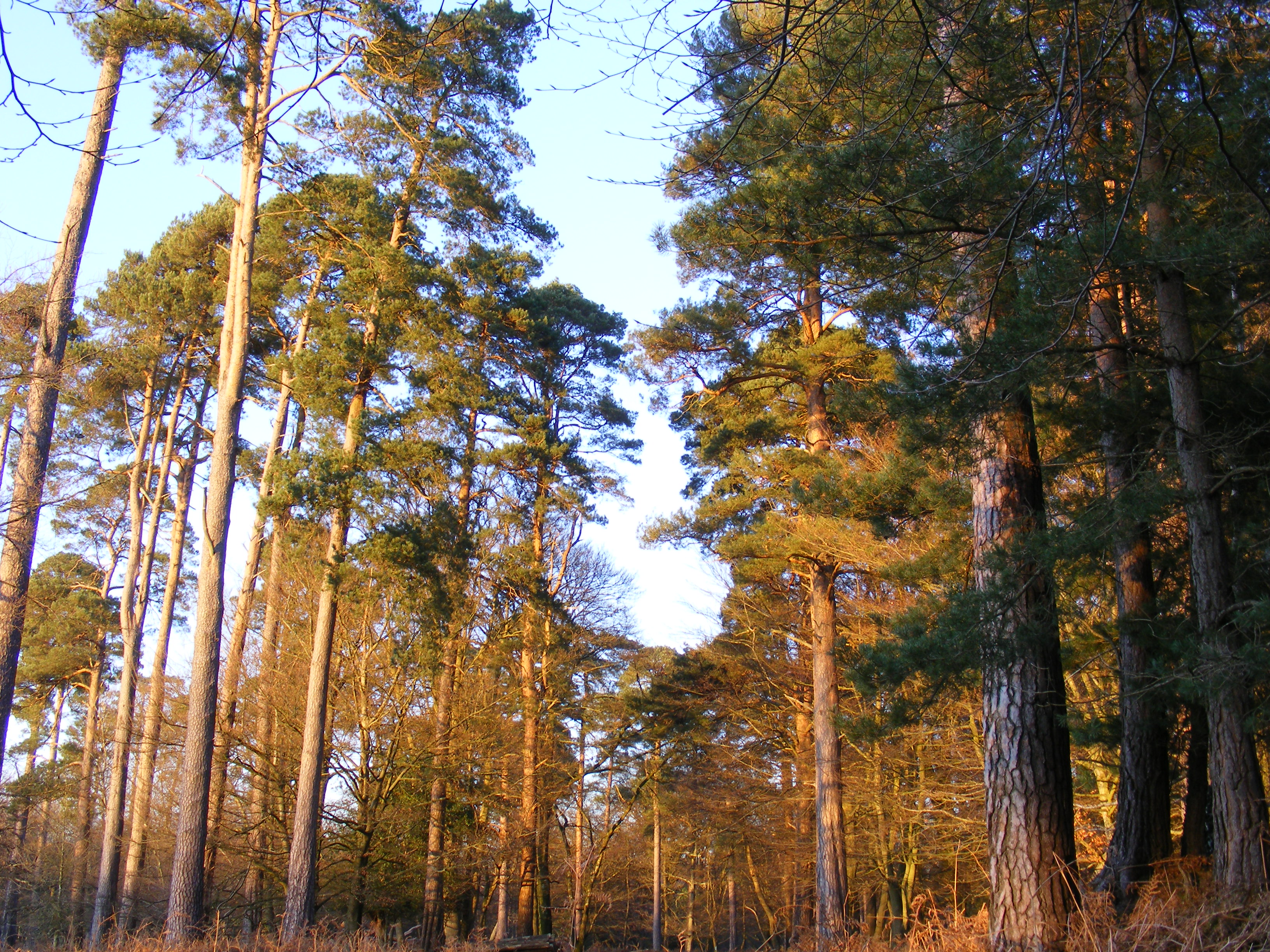 Scots Pines near Bolderwood in the New Forest. Late afternoon, towards sunset.